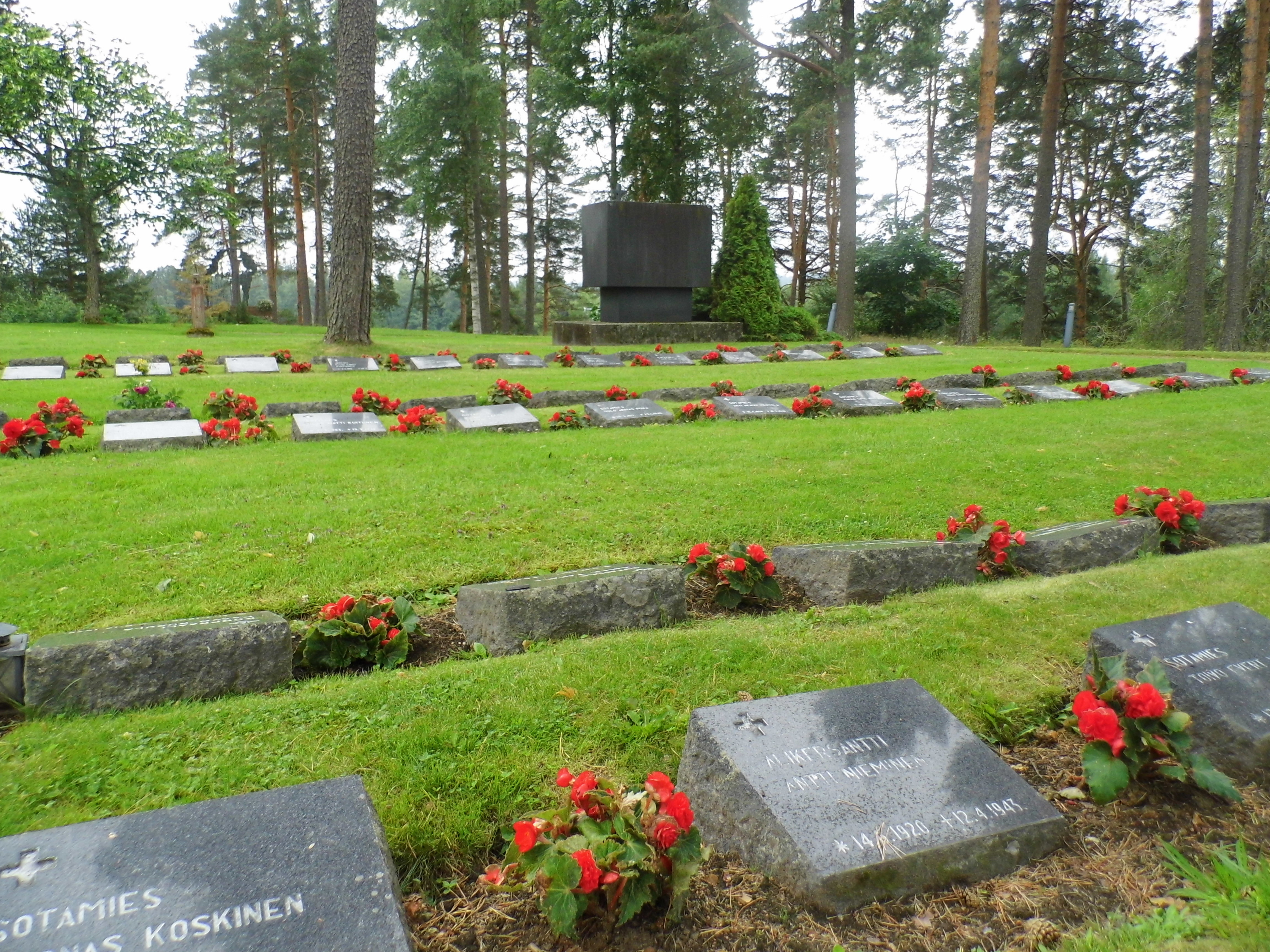 Military cemetary at church in Petäjävesi, Finland